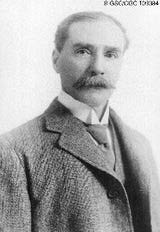 Lawrence Morris Lambe, Canadian geologist and palaeontologist